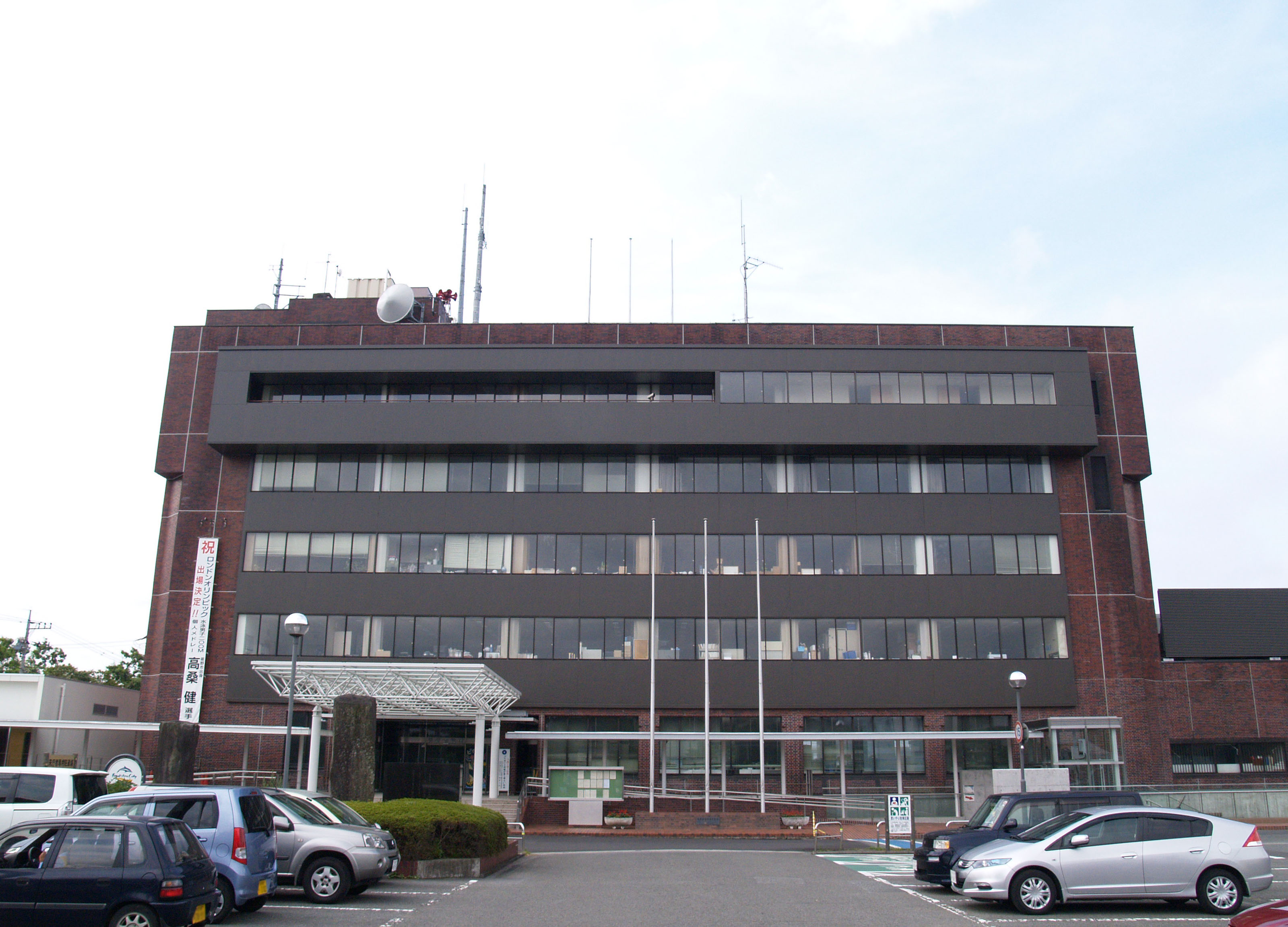 Susono city office